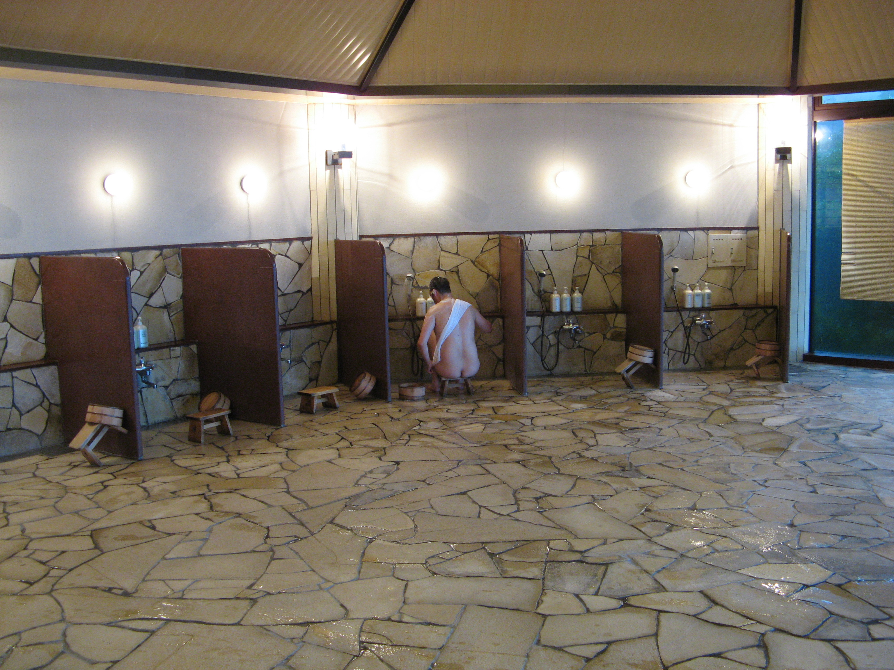 Washing cubicles with a man washing himself